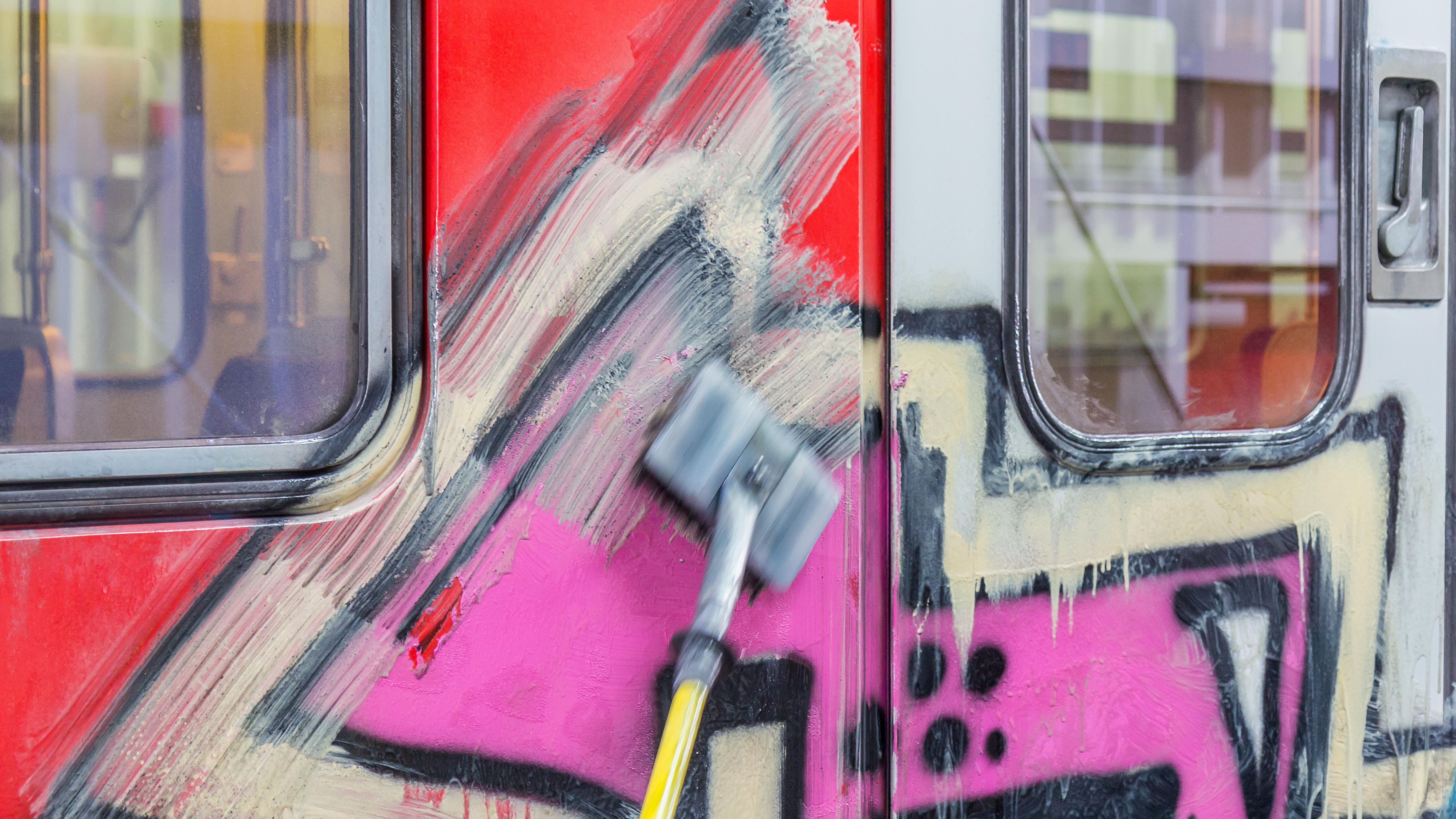 Removal of graffiti from a train in a new service building of Deutsche Bahn in Cologne.